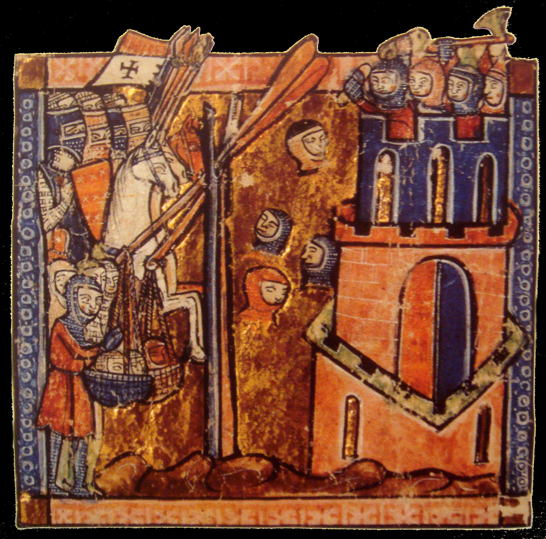 Crusaders bombard Nicaea with heads in 1097. Literature: David Nicolle, Medieval Siege Weapons (1): Western Europe AD 585-1385, Osprey Publishing, 2002, p. 21.